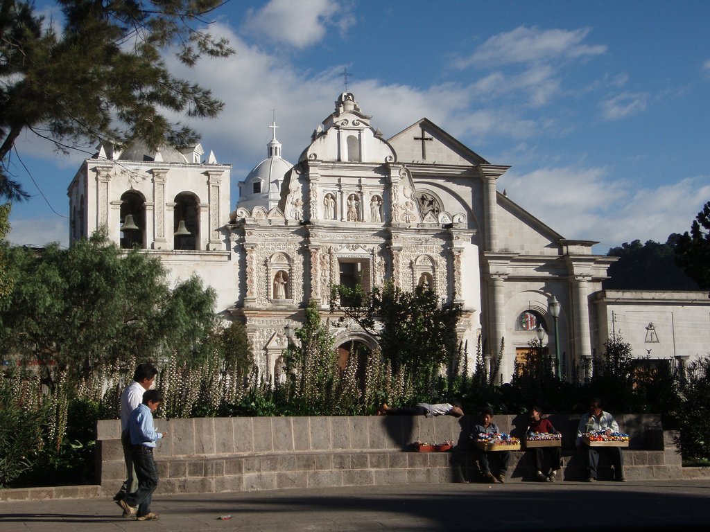 Catedral de Quetzaltenango, con su vieja fachada y con su nueva fachada.